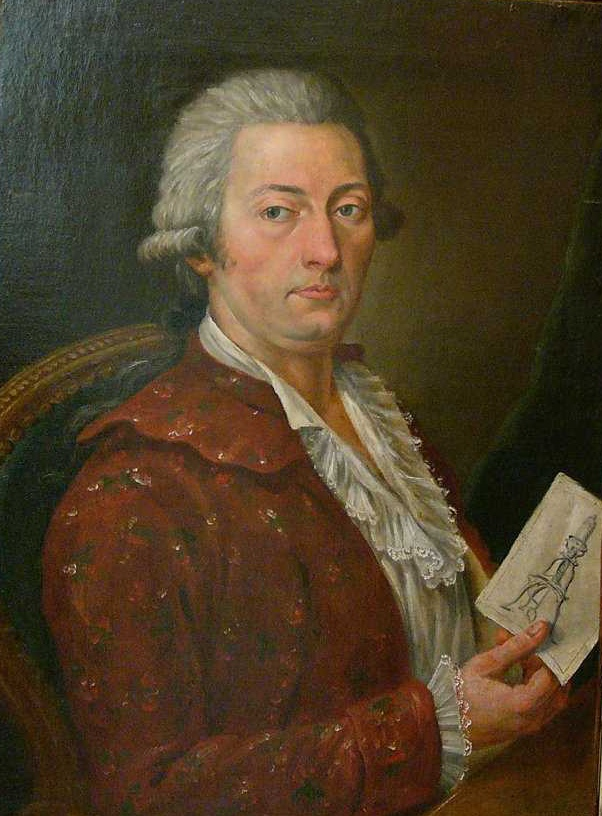 Possible Portrait of the Chemist Carl Wilhelm Scheele (1742-1786)